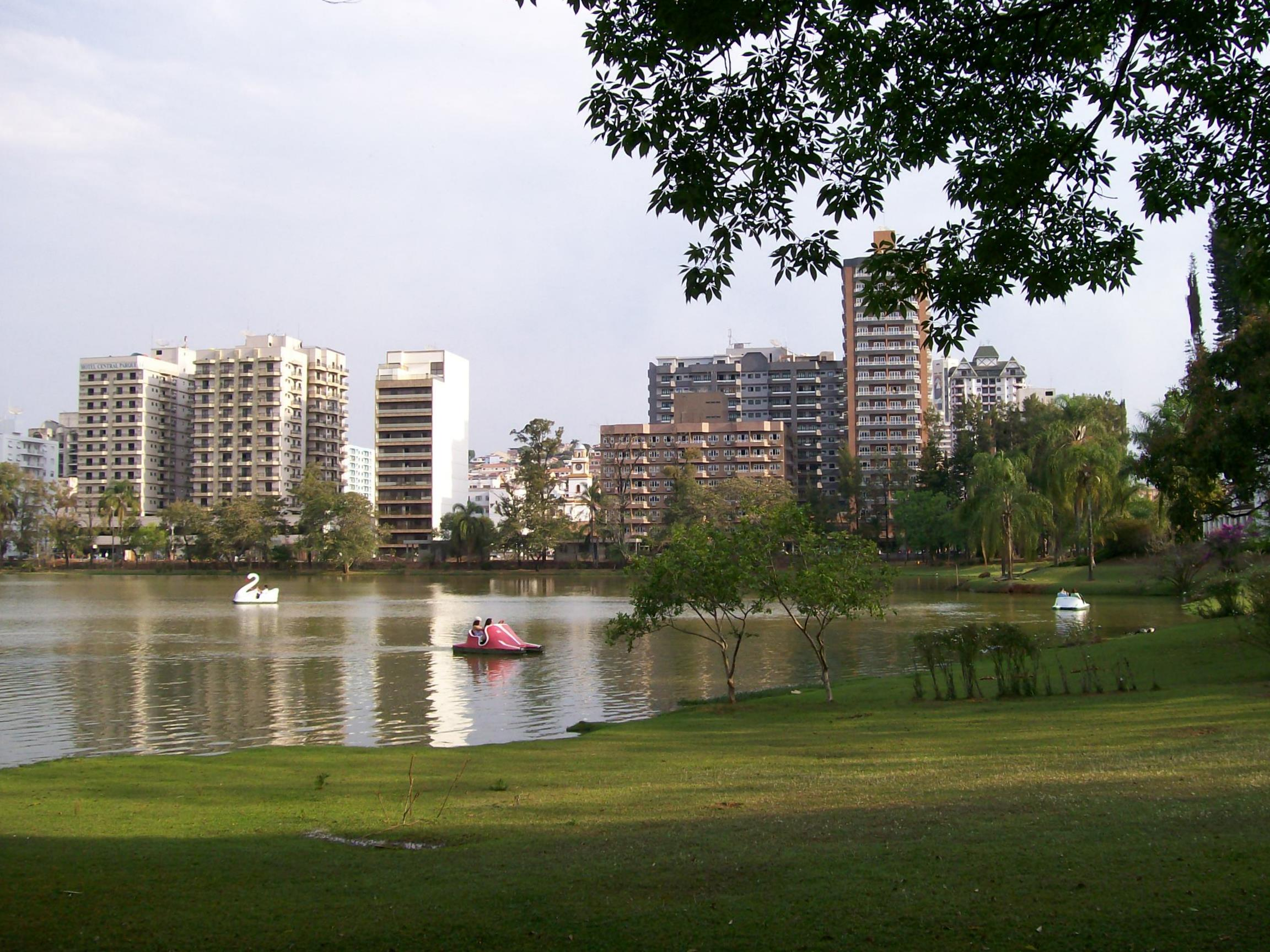 Waters Park in São Lourenço, Brazil.